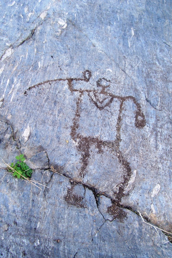 R. 2-3. The "Traveller" (marked). Loc. Carpene, Sellero, Val Camonica, Italy.